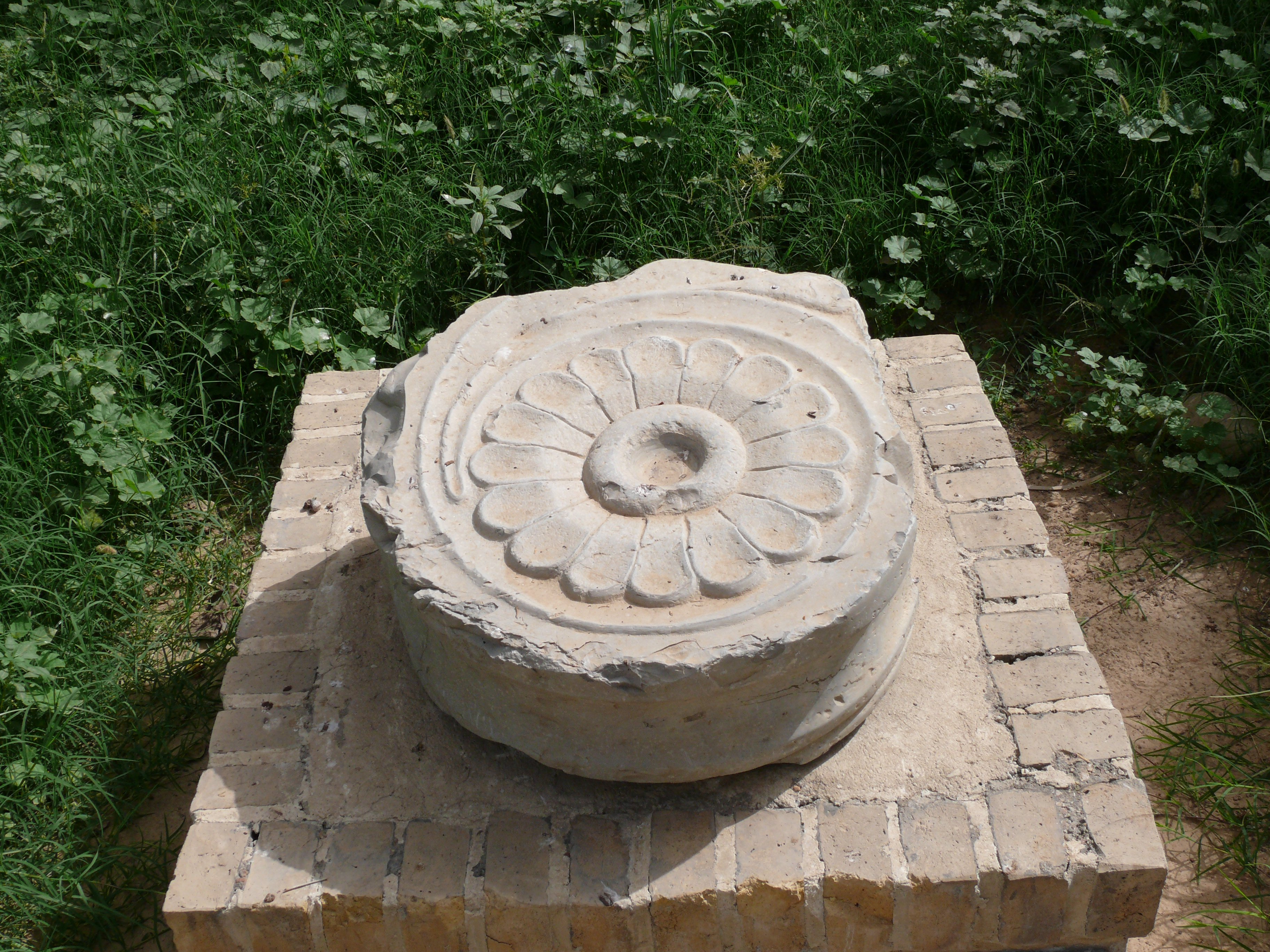 Carved Stone Flower Rosace from the Apadana, Susa. Museum of Shush, Khouzestan, Iran